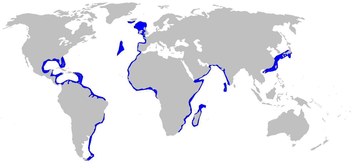 Distribution map for Scymnodon obscurus